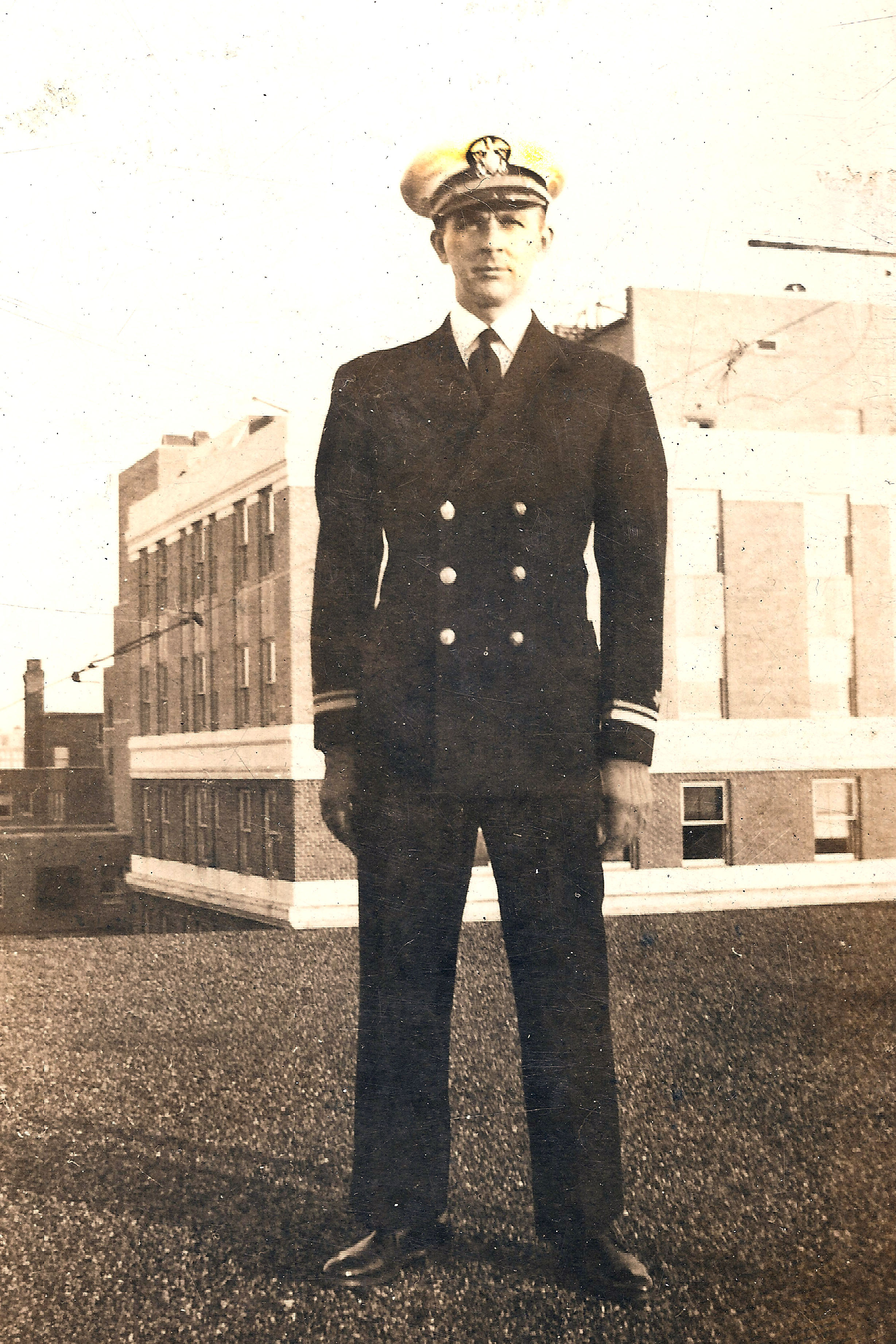 george in army uniform